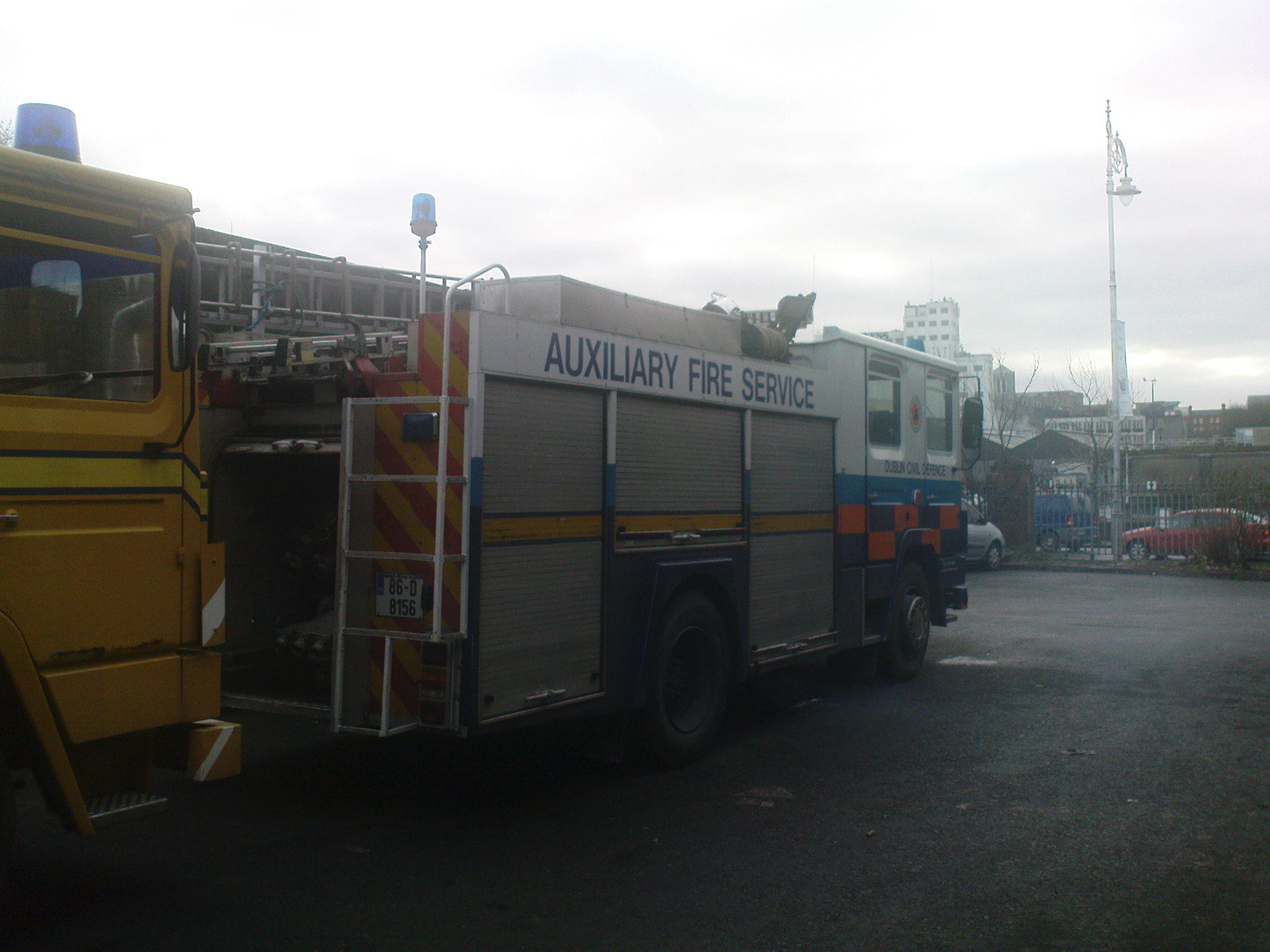 Dublin AFS Engine 2